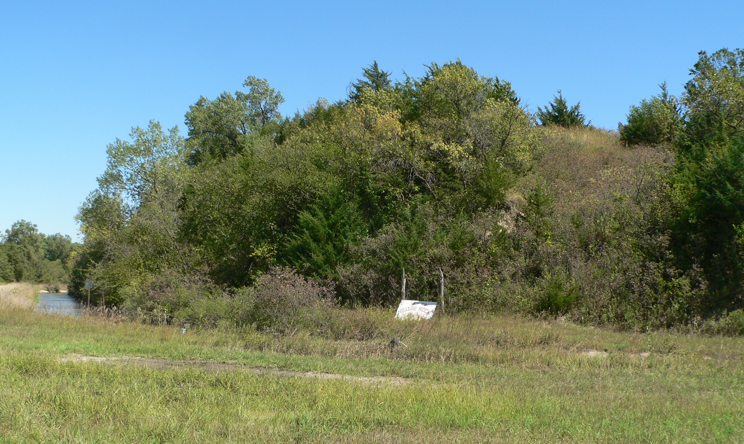 Pa-hur, a.k.a. Guide Rock: a hill on the south side of the Republican River, southeast of Guide Rock, Nebraska. Seen from the west. The water at left is the Courtland Canal, which passes through a siphon under Rankin Creek west of the hill, then flows generally eastward around the base of the hill.